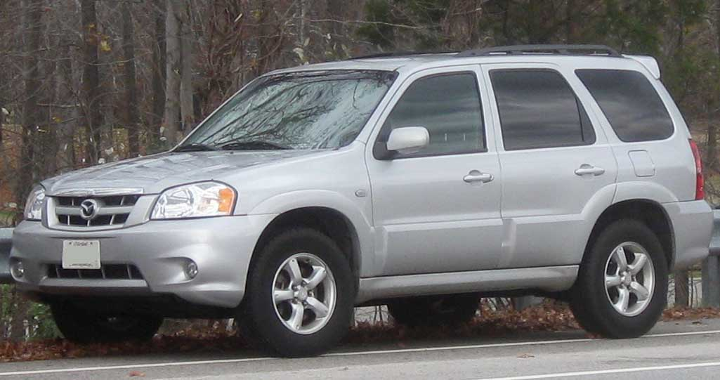 2005-2007 Mazda Tribute photographed in College Park, Maryland, USA.